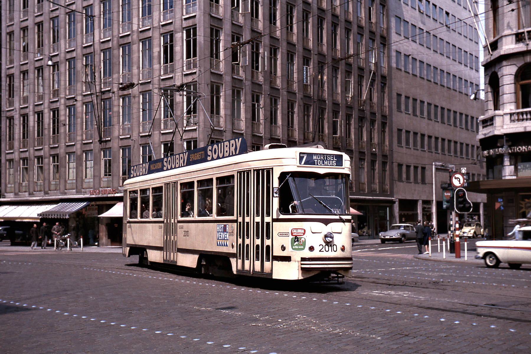 PCC-car in Antwerp, Belgium